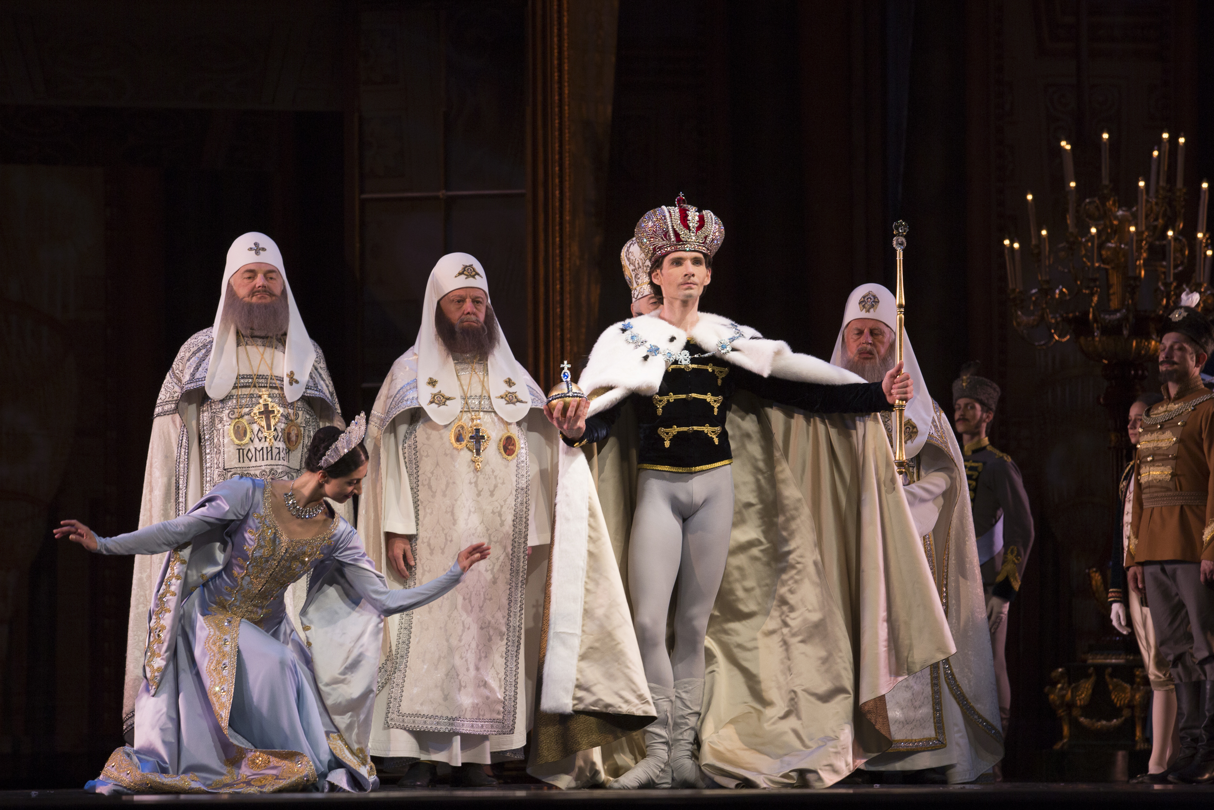 "Swan Lake" in Krzysztof Pastor's choreography, Polish National Ballet, dancers: Chinara Alizade as Princess Alix & Vladimir Yaroshenko as Tsarevich Nicky, set and costume design by Luisa Spinatelli